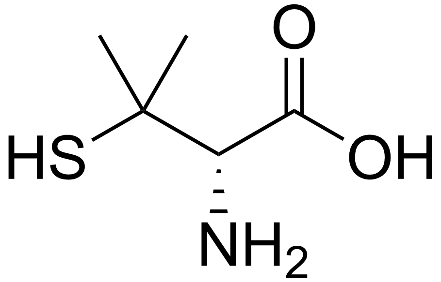 Chemical structure of penicillamine